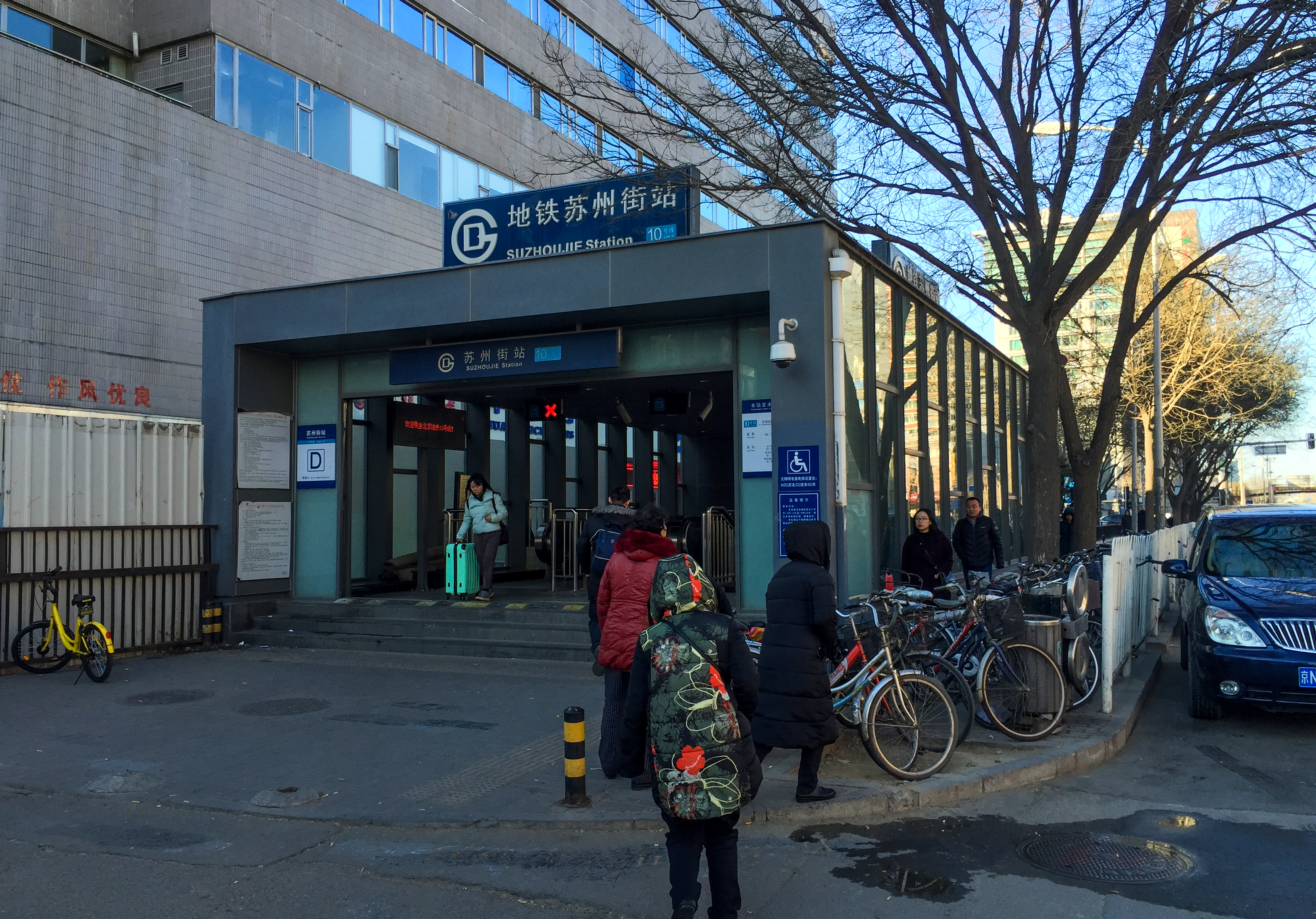 Only for Line 10. Maybe the one for Line 16 is on the south.